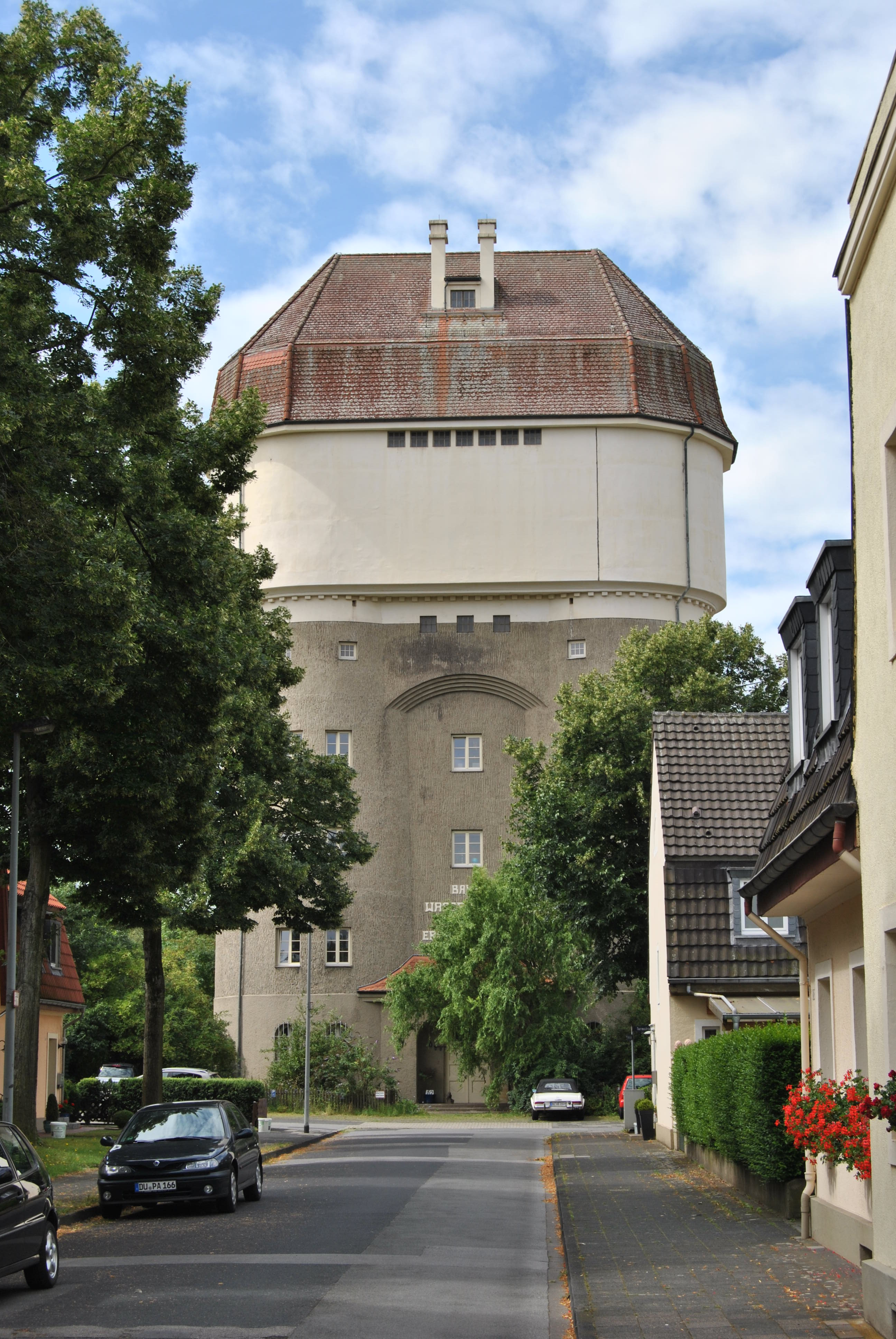 Duisburg (North Rhine-Westphalia, Germany) – borough Rheinhausen, district Friemersheim – old railroad colony – twin water tower of the former Hohenbudberg Marshalling Yard